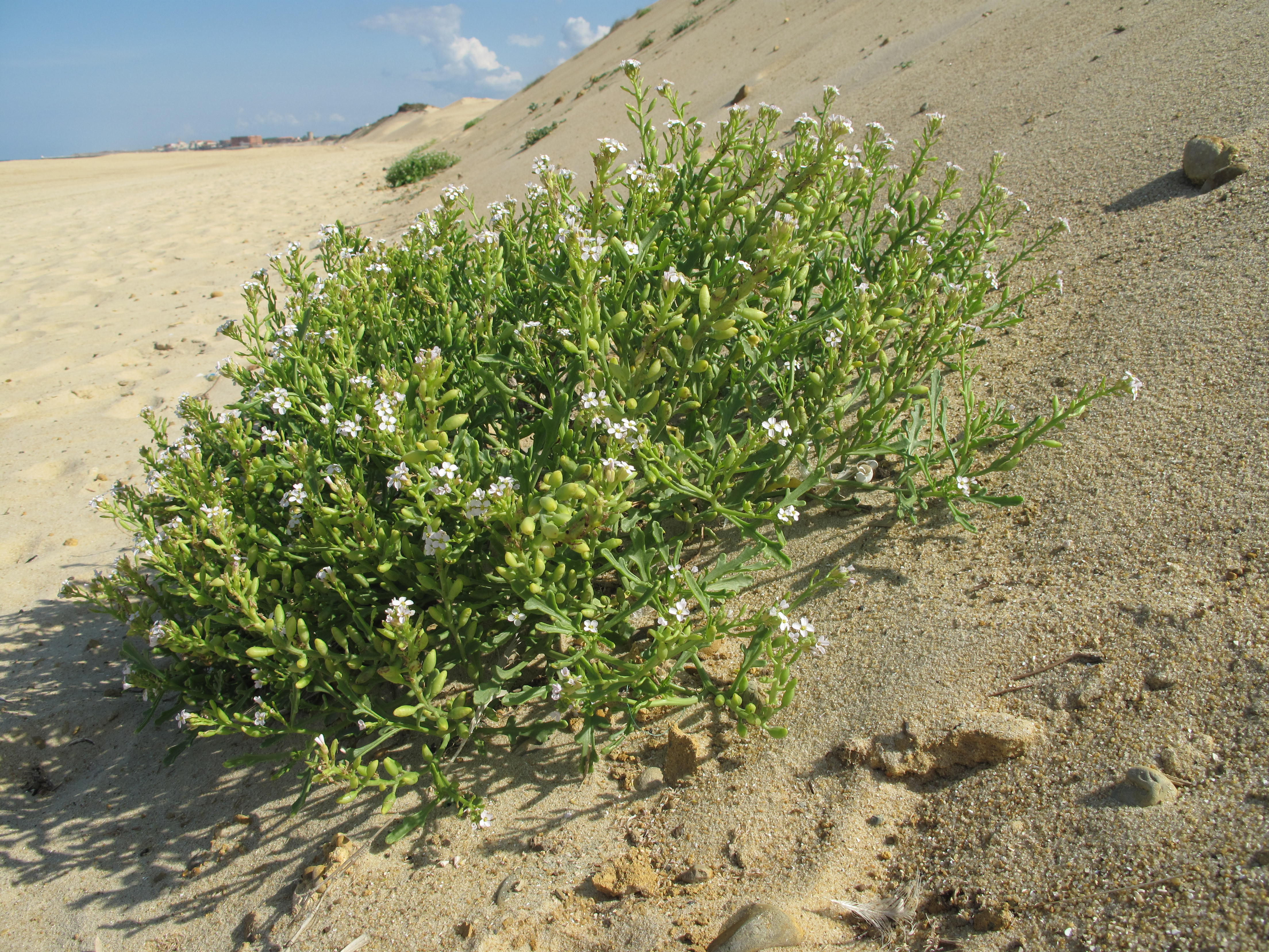 Cakile maritima at the foot of the dune in the south of Capbreton, Landes, France